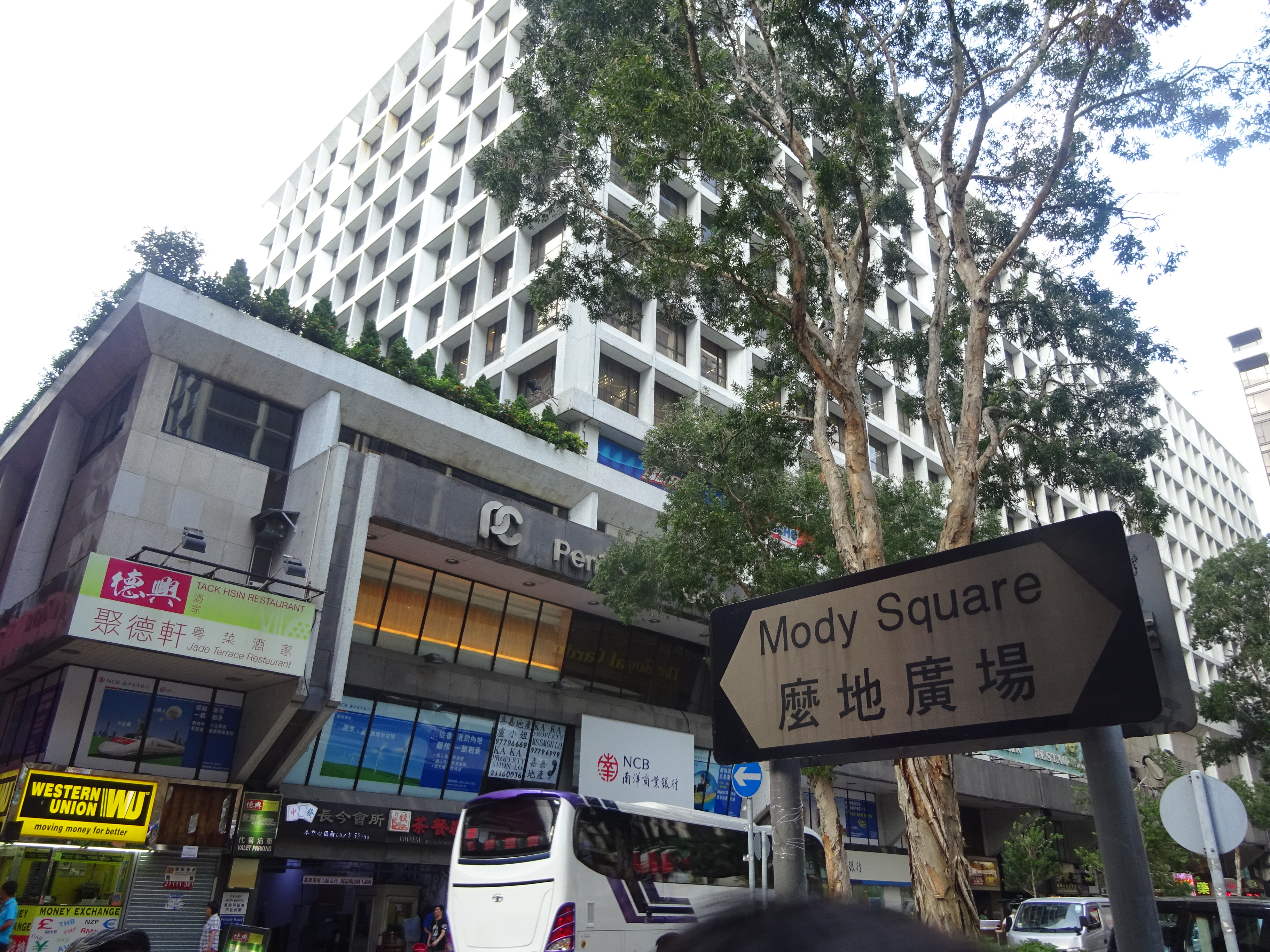 HK 尖沙咀東 TST East Mody Square 半島中心 Peninsula Centre in October 2016